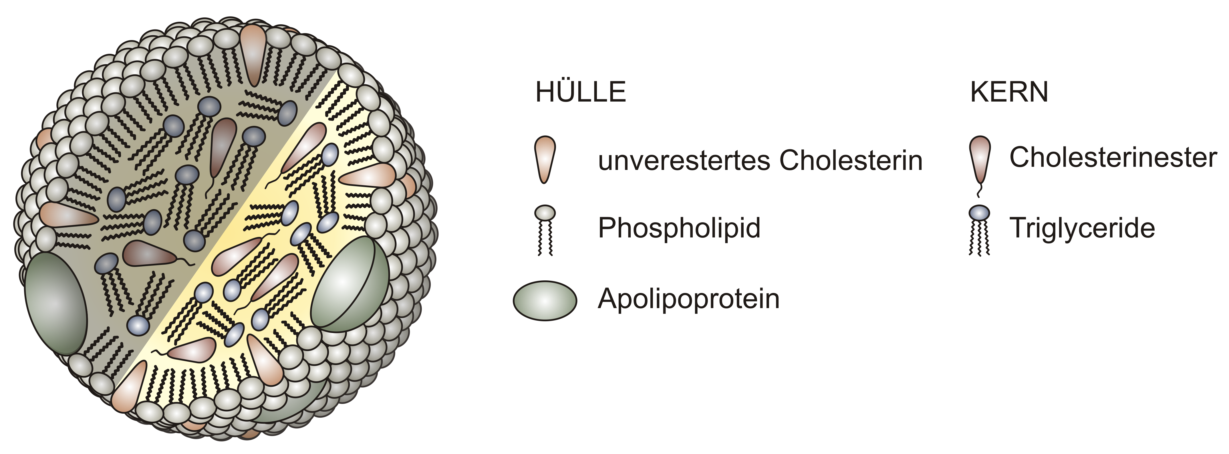 Lipoprotein particles are composed of a lipid core containing cholesteryl esters and triglycerides, and a surface coat of phospholipids, unesterified cholesterol and apolipoproteins.